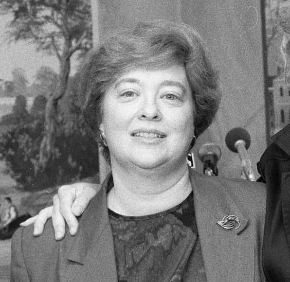 National Museum of American History Curator Edith Mayo at the Smithsonian "Castle" in 1988.